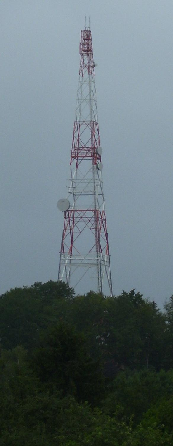 Radio Tower at Patch Barracks, Stuttgart. Tower was dismantled in May 2009